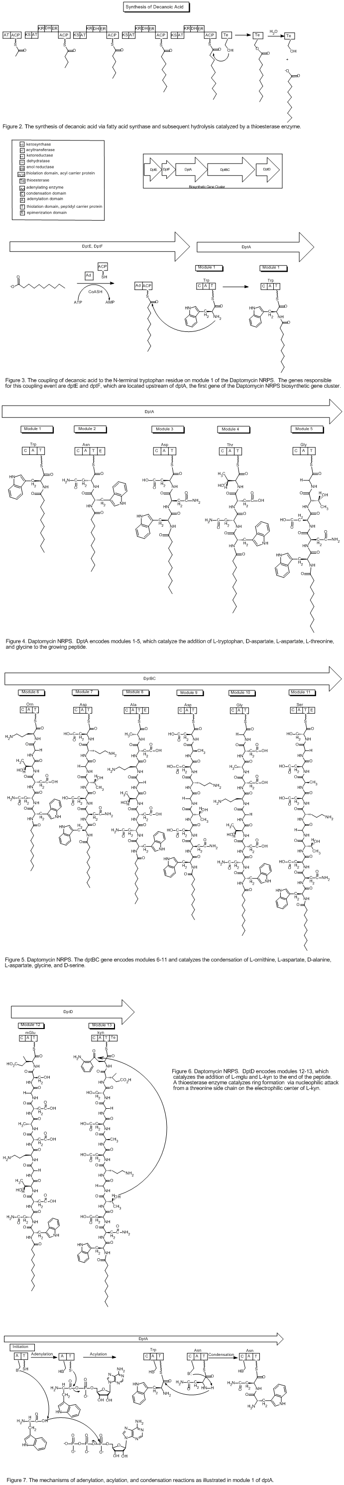 Dap